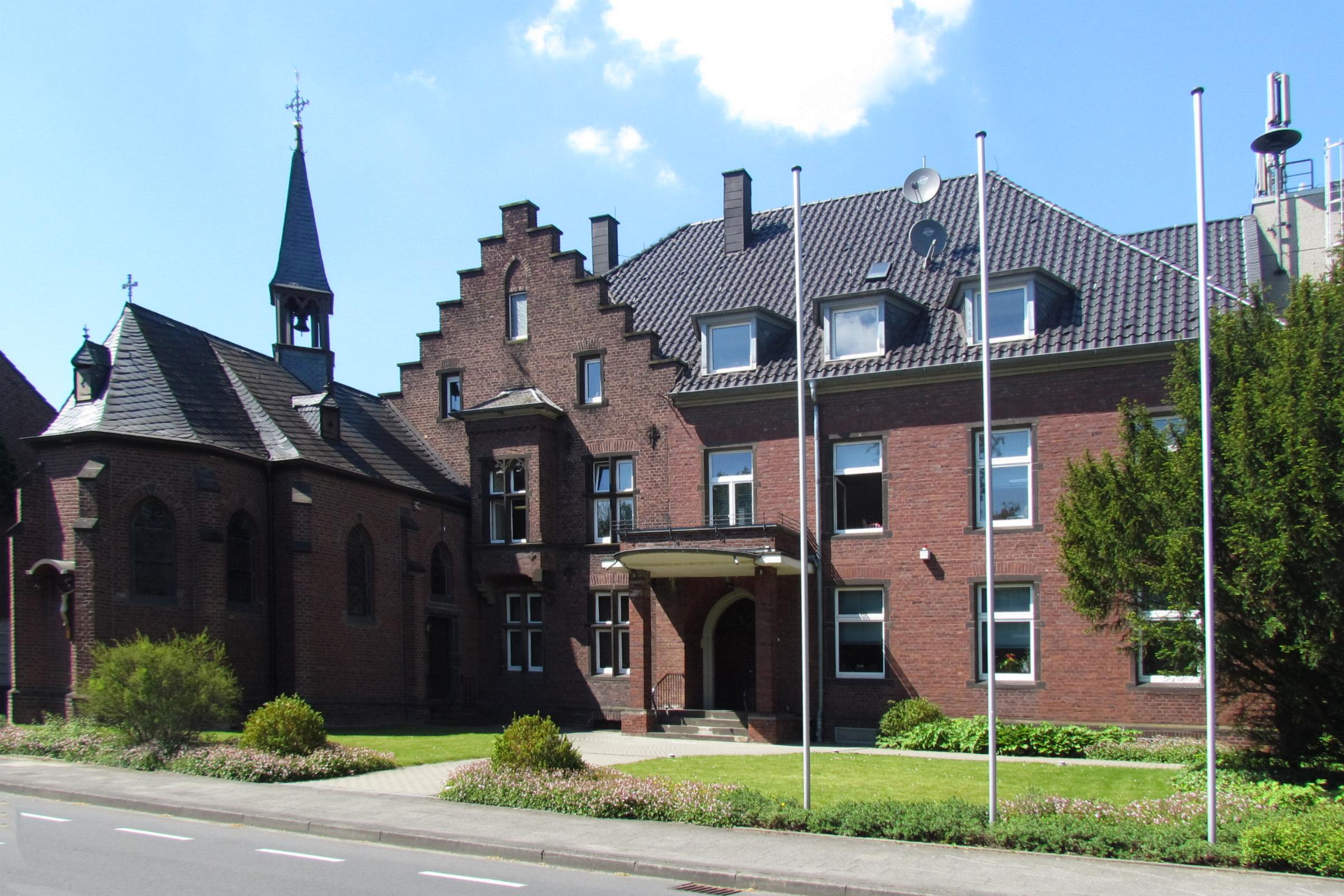 This is a photograph of an architectural monument.It is on the list of cultural monuments of Korschenbroich